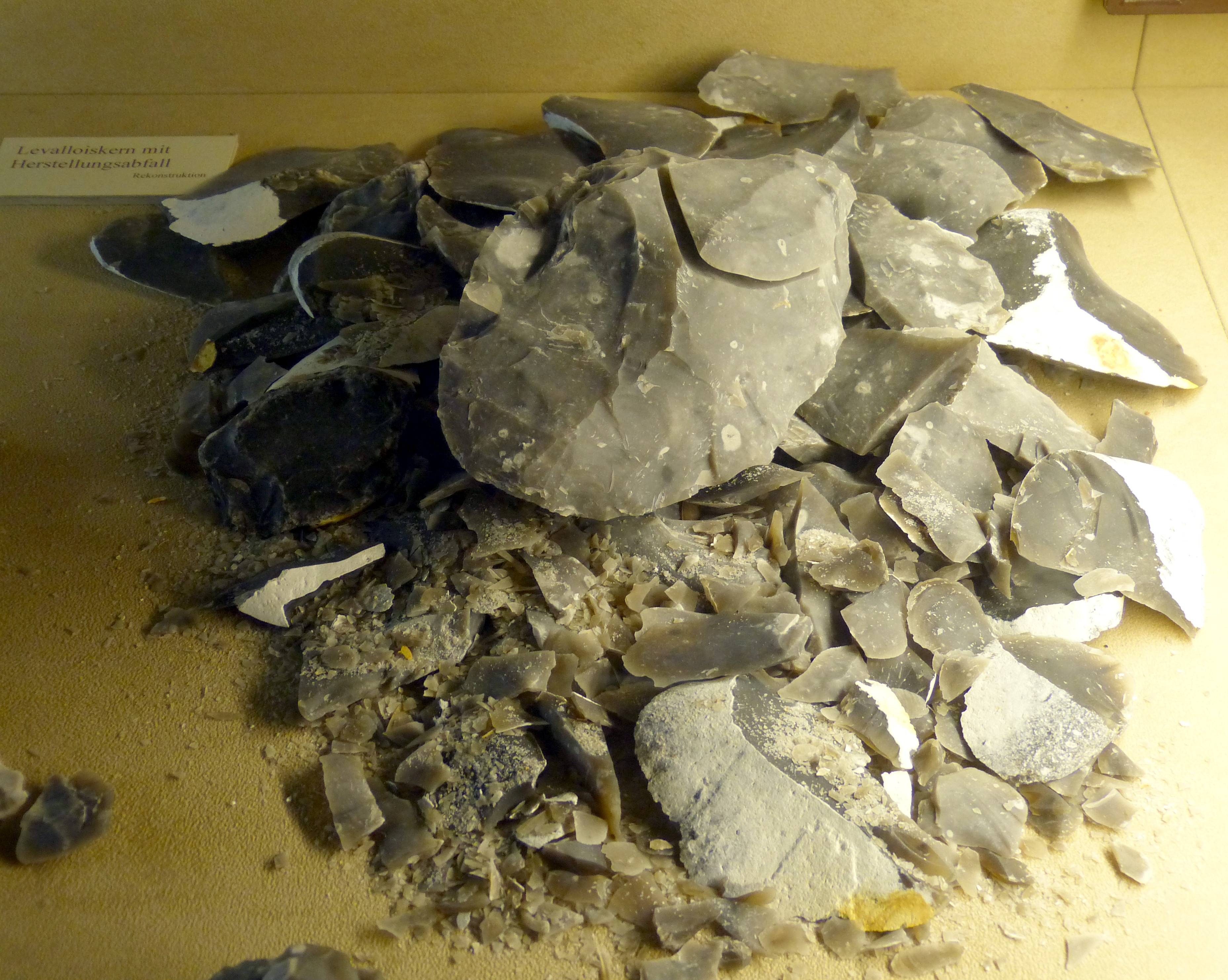 Natural History Museum, Vienna ( Austria ). Levallois technique.